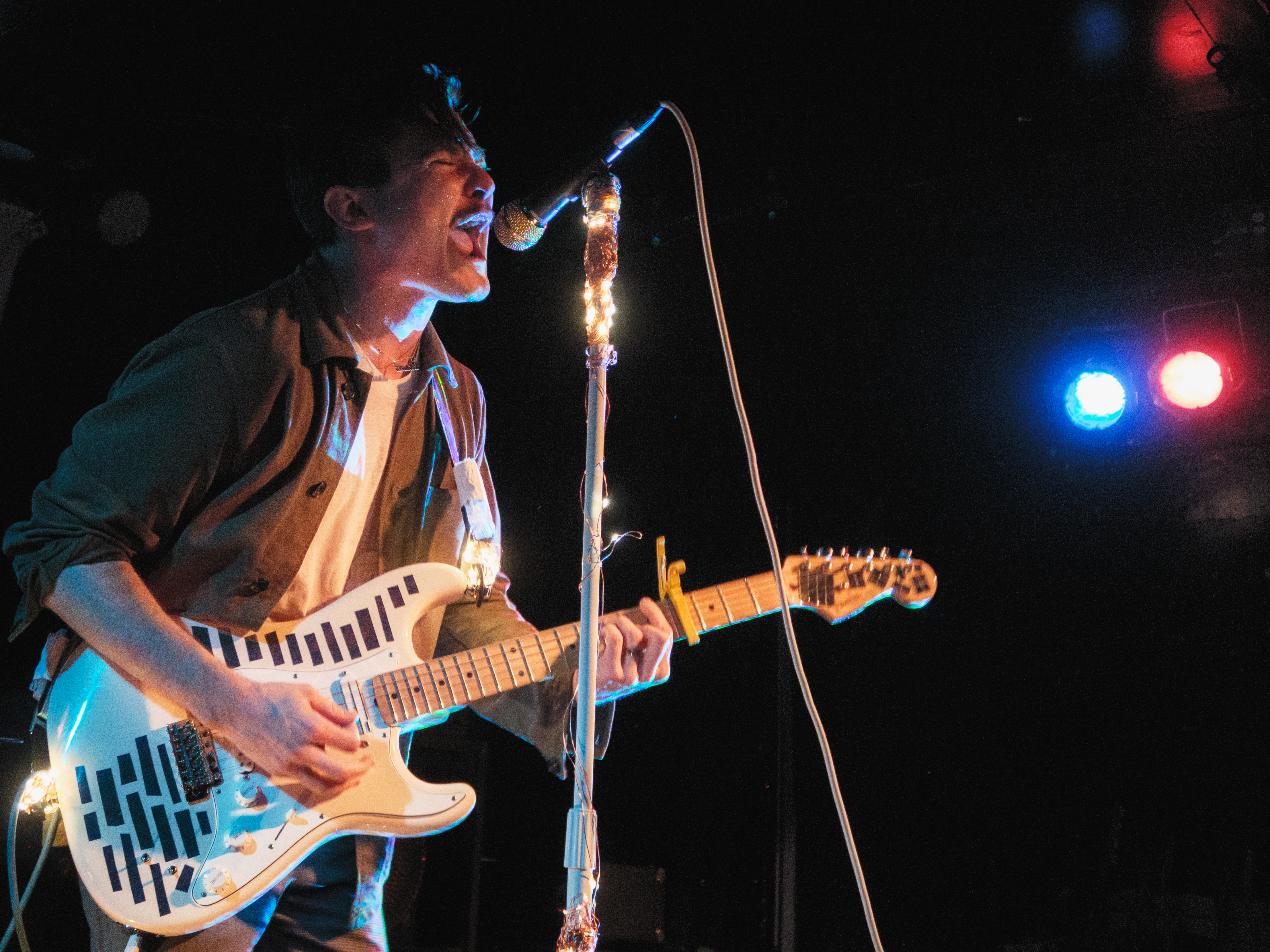 Chris Farren at Beat Kitchen in 2020